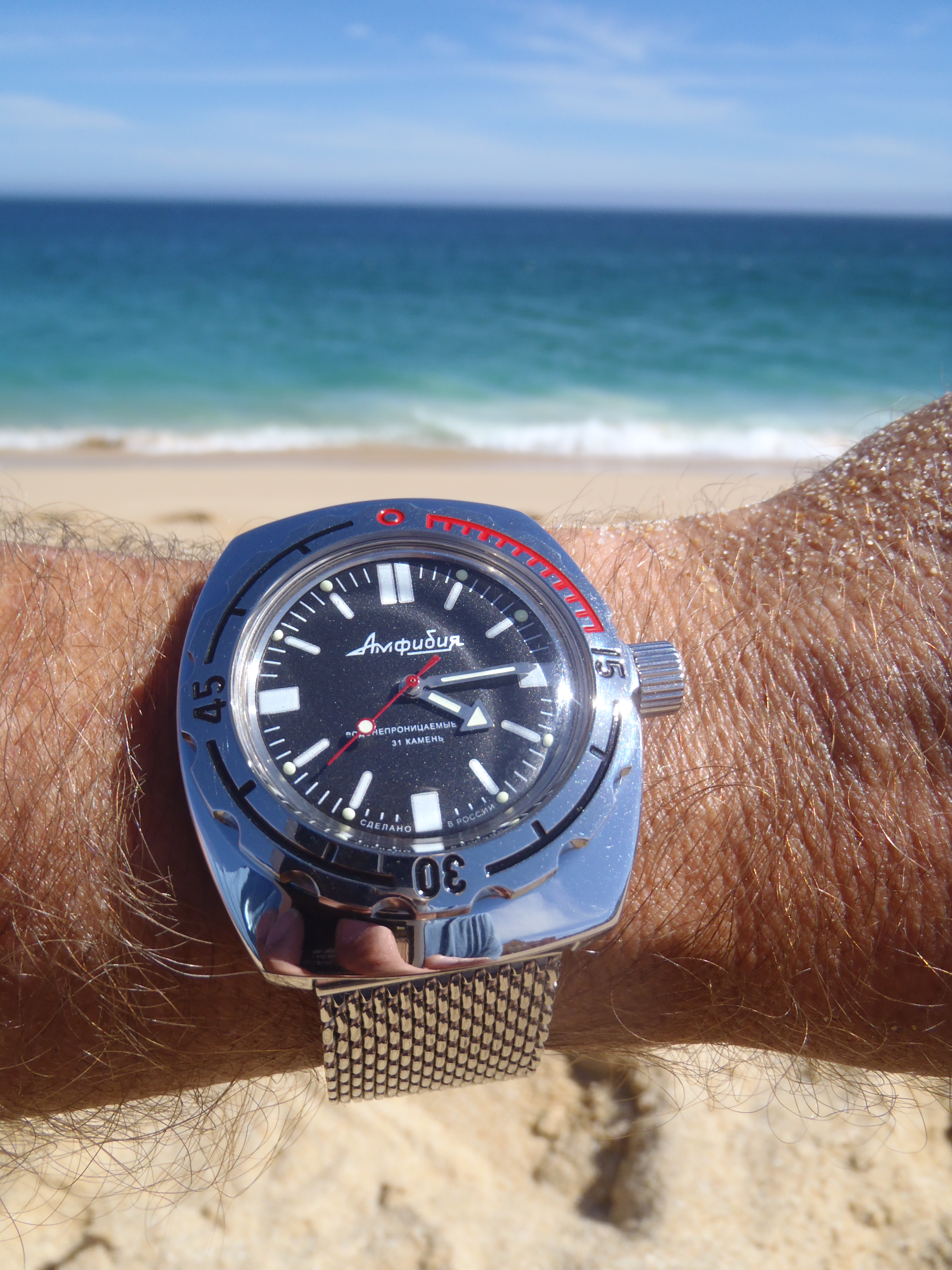 Vostok Amphibia classic, model 090916, manufactured 12/2018.